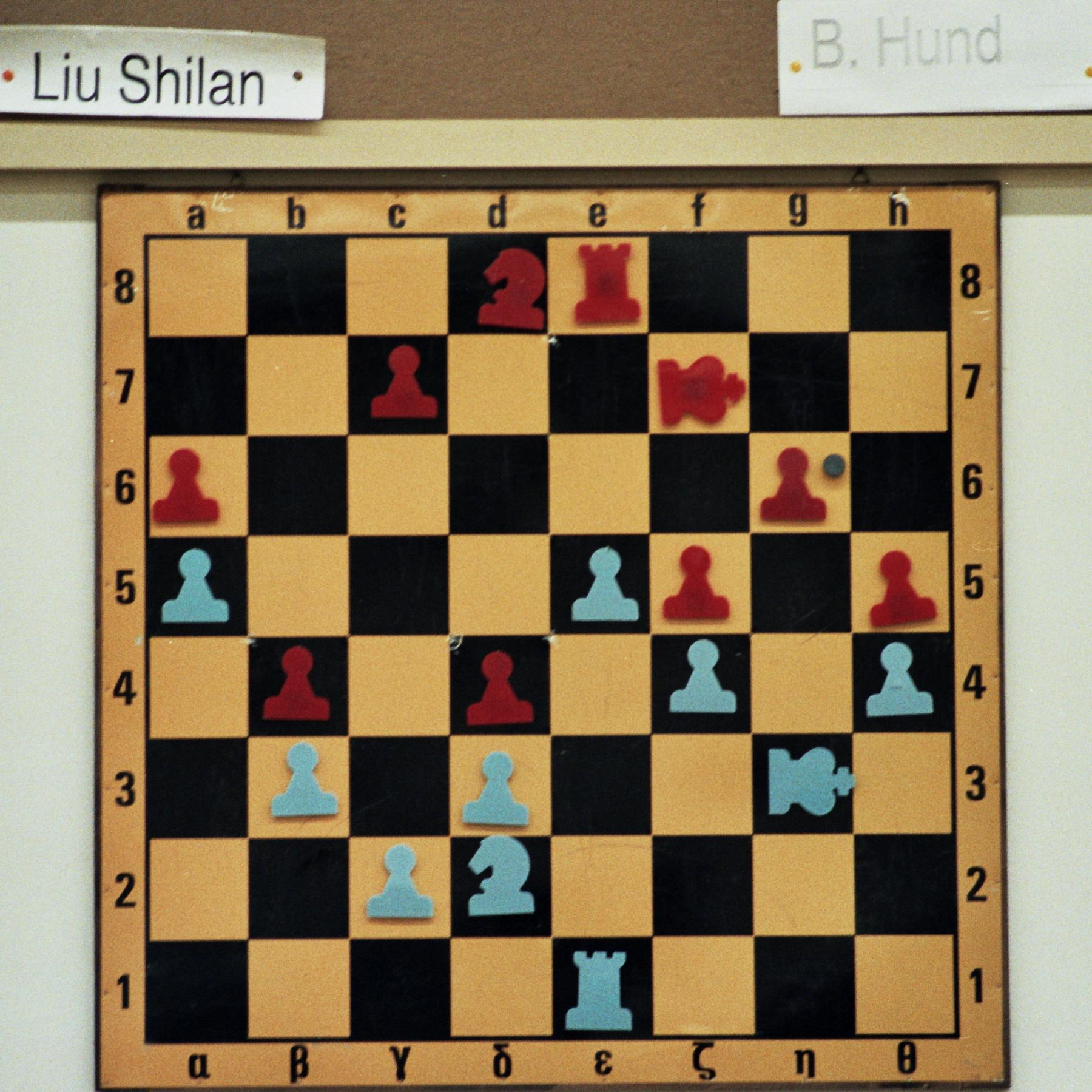 Final position: Liu Shilan - Barbara Hund, Chess Olympiad 1984 in Thessaloniki, Photographer Gerhard Hund.